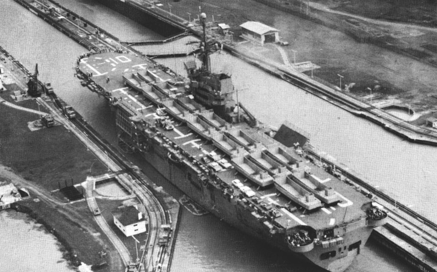 The U.S. Navy amphibious assault ship USS Tripoli (LPH-10) in the Miraflores Locks of the Panama Canal. Following three months fitting out at Philadelphia, Pennsylvania (USA), the ship put to sea on 6 November 1966, bound for the U.S. West Coast. She transited the Panama Canal at mid-month and arrived at her home port, San Diego, California (USA), on 22 November 1966. On deck are 15 landing craft.